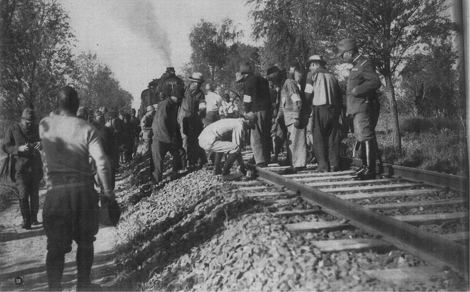 An incident in China in which local Chinese found a damaged rail line between Hangzhou and Shanghai at 7:30 a.m. April 17, 1938 and informed the railroad guard. The train crew and Chinese workers worked together to repair it, and within 15 minutes the train left for Shanghai safely. (The steam locomotive, number 79632, is a Japanese Class 9600 sent to China.)